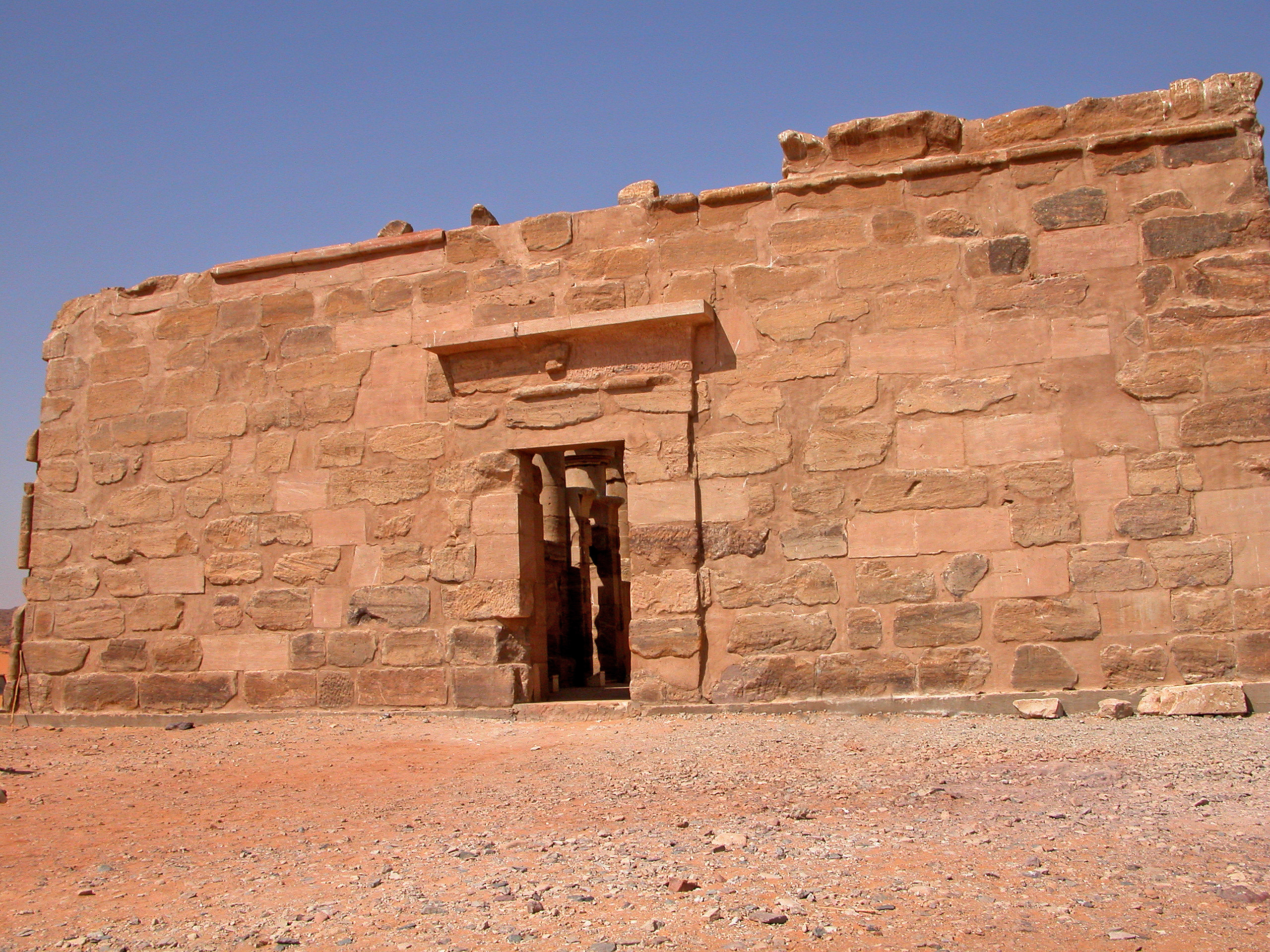 A view of the entrance to the Temple of Maharraqa; an Ancient Egyptian temple in Nubia.